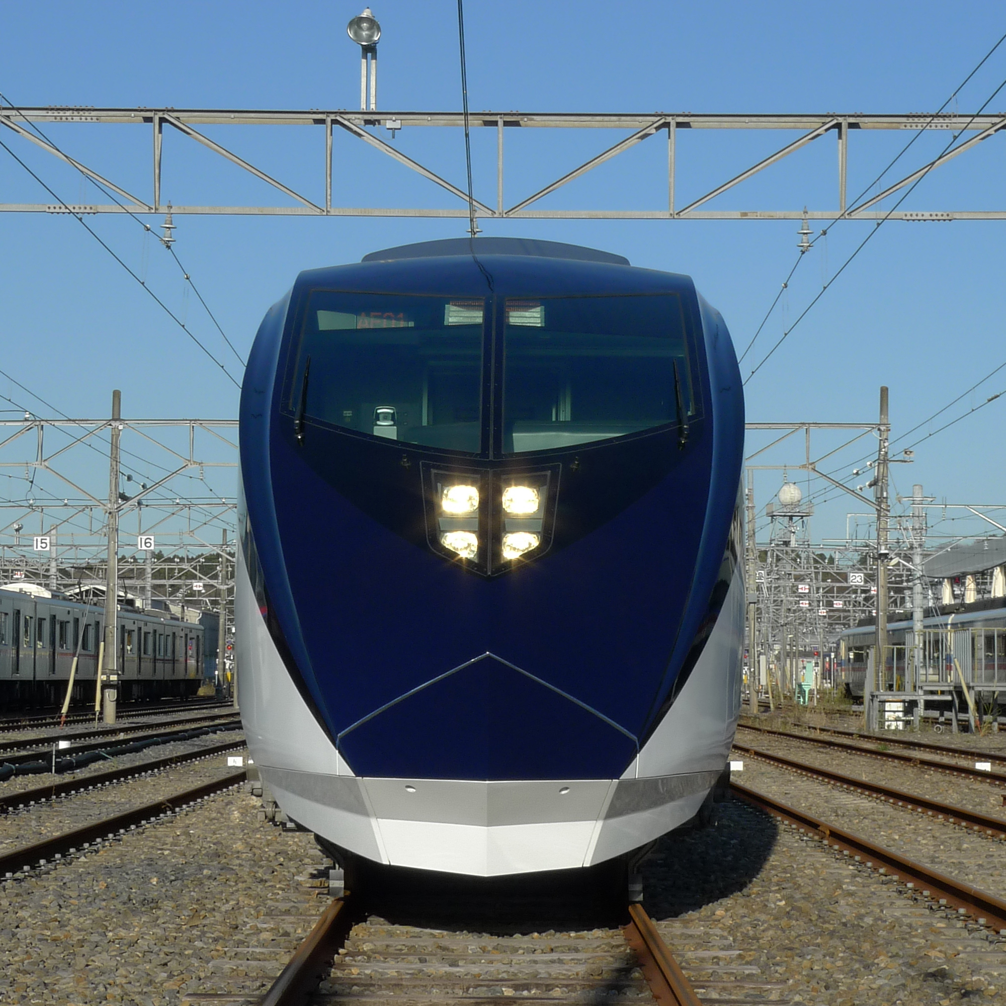 Keisei AE(2nd model)1-8 front mask in Sougo-sandou Rail yard.